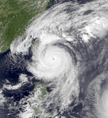 Typhoon Nat on September 22, 1991. At the time Nate had winds of 96.9 knts (111.5 mph, 179.6 kph), 1-min sustained and a pressure of 950 mbar. Nate was about 145 miles away from land. This image was taken by the NOAA-11 Satellite.